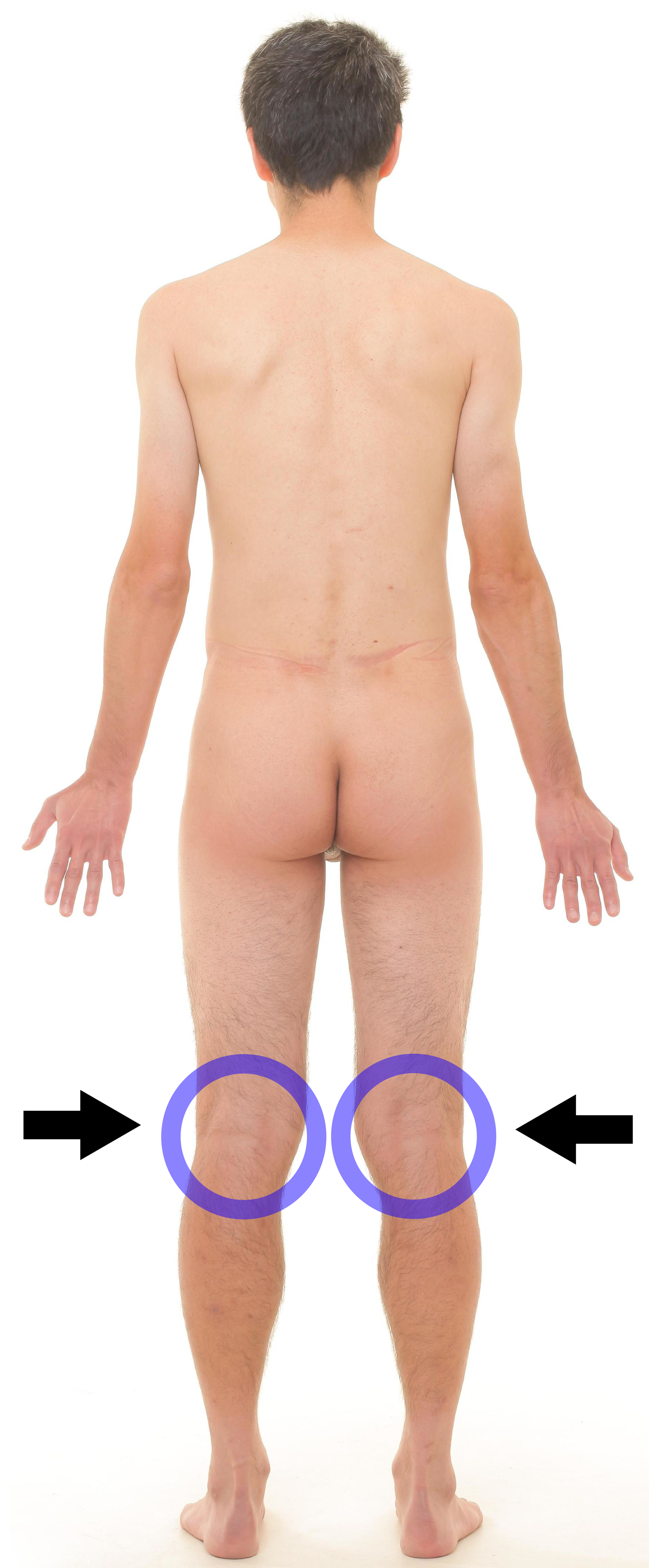 Popliteal fossa